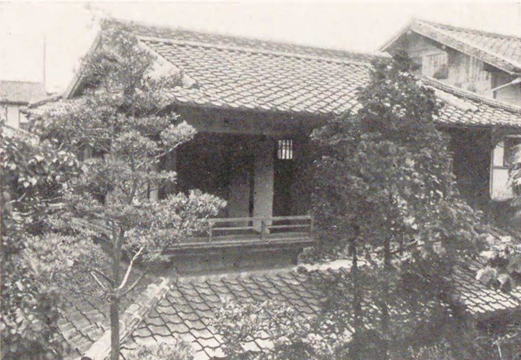 Gudabutsuan at Matsuyama, Ehime prefecture, the defunct house Natsume Soseki lived and Masaoka Shiki also stayed for a time.